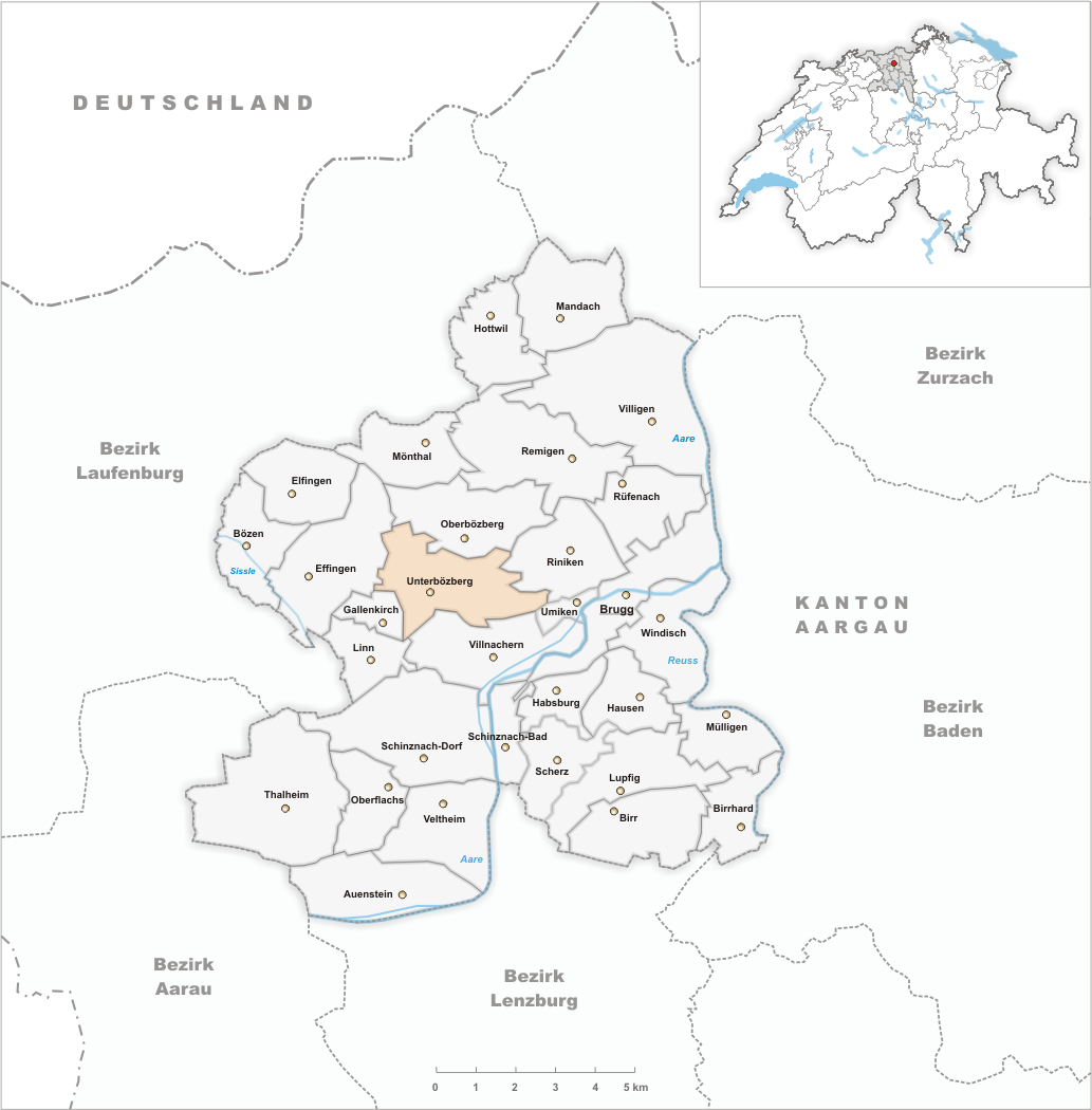 Municipality Unterbözberg